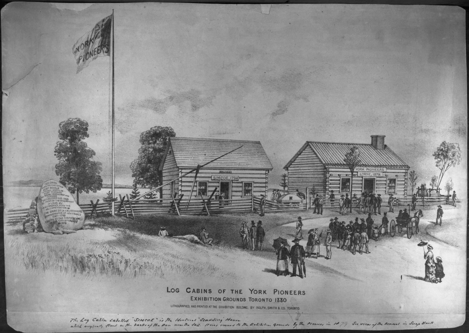 View of transplanted Scadding log cabin, Lorne Cabin and Fort Rouille cairn